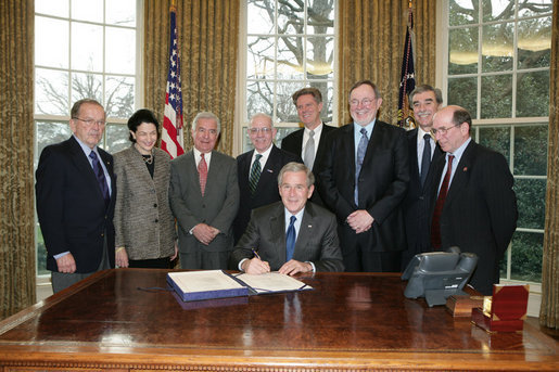 President George W. Bush prepares to sign H.R. 5946, the Magnuson-Stevens Fishery Conservation and Management Reauthorization Act of 2006, Friday, Jan. 12, 2007 in the Oval Office at the White House. President Bush is joined by, from left, Sen. Ted Stevens of Alaska, Sen. Olympia Snow of Maine, Rep. Nick Rahall of West Virginia., Rep. Jim Saxton of New Jersey, Rep. Frank Pallone of New Jersey; Rep. Don Young of Alaska, U.S. Commerce Secretary Carlos Guiterrez and Rep. Wayne Gilchrest of Maryland. White House photo by Paul Morse